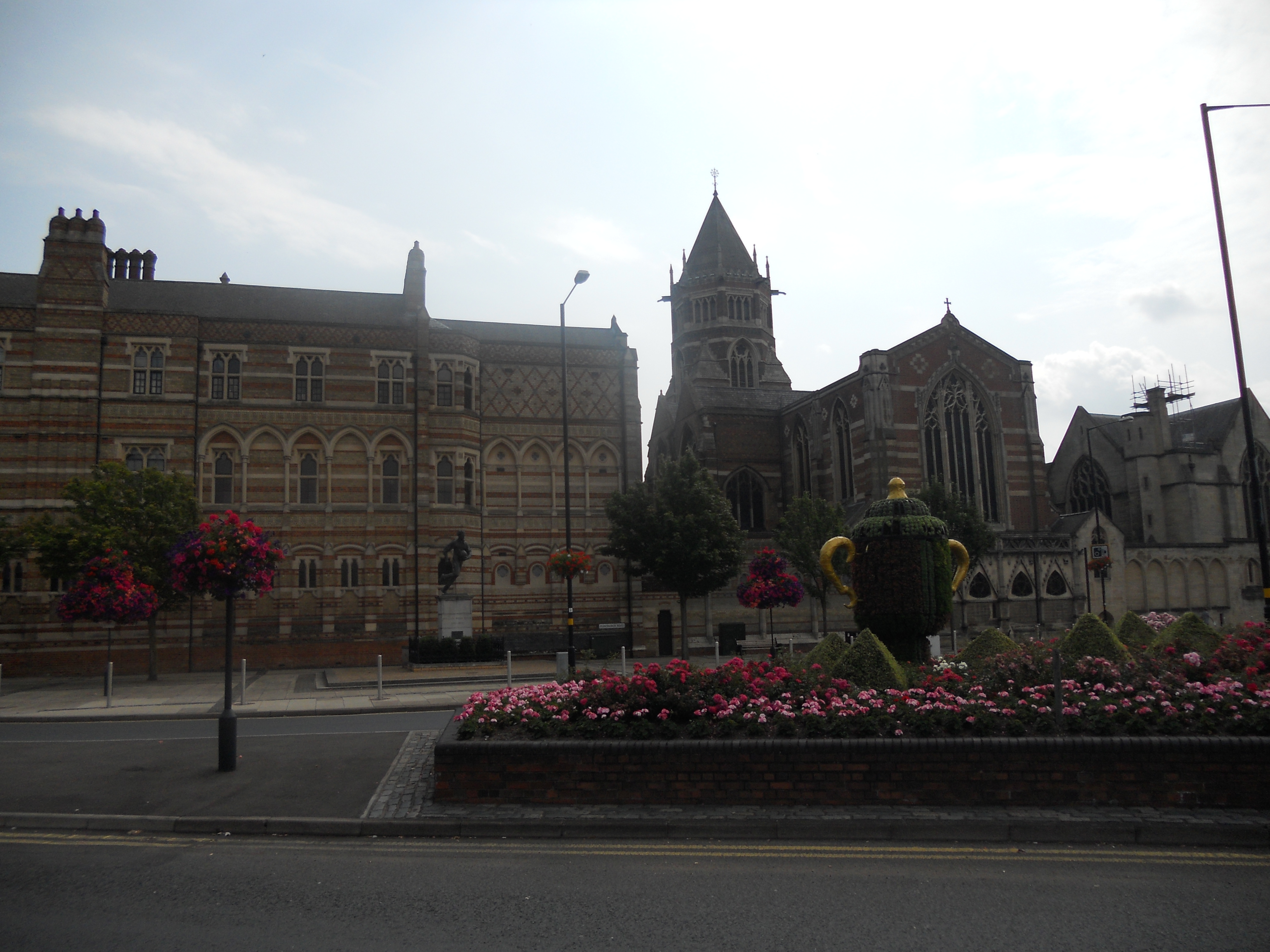 Rugby School, with a statue of William Webb Ellis in the middleground.